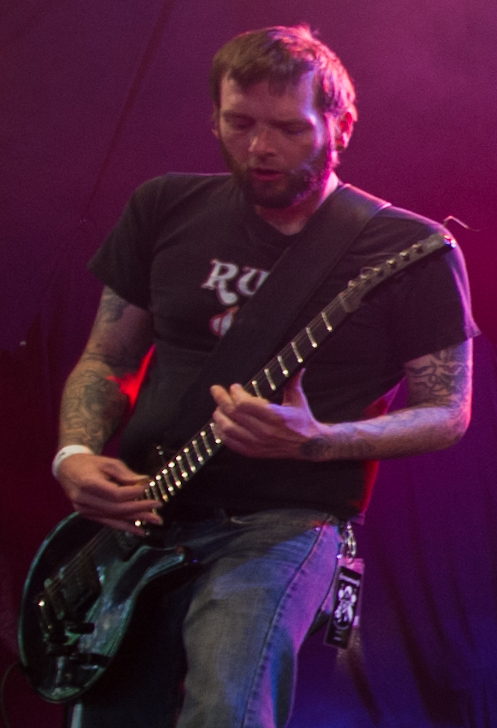 Roskilde Festival 2011